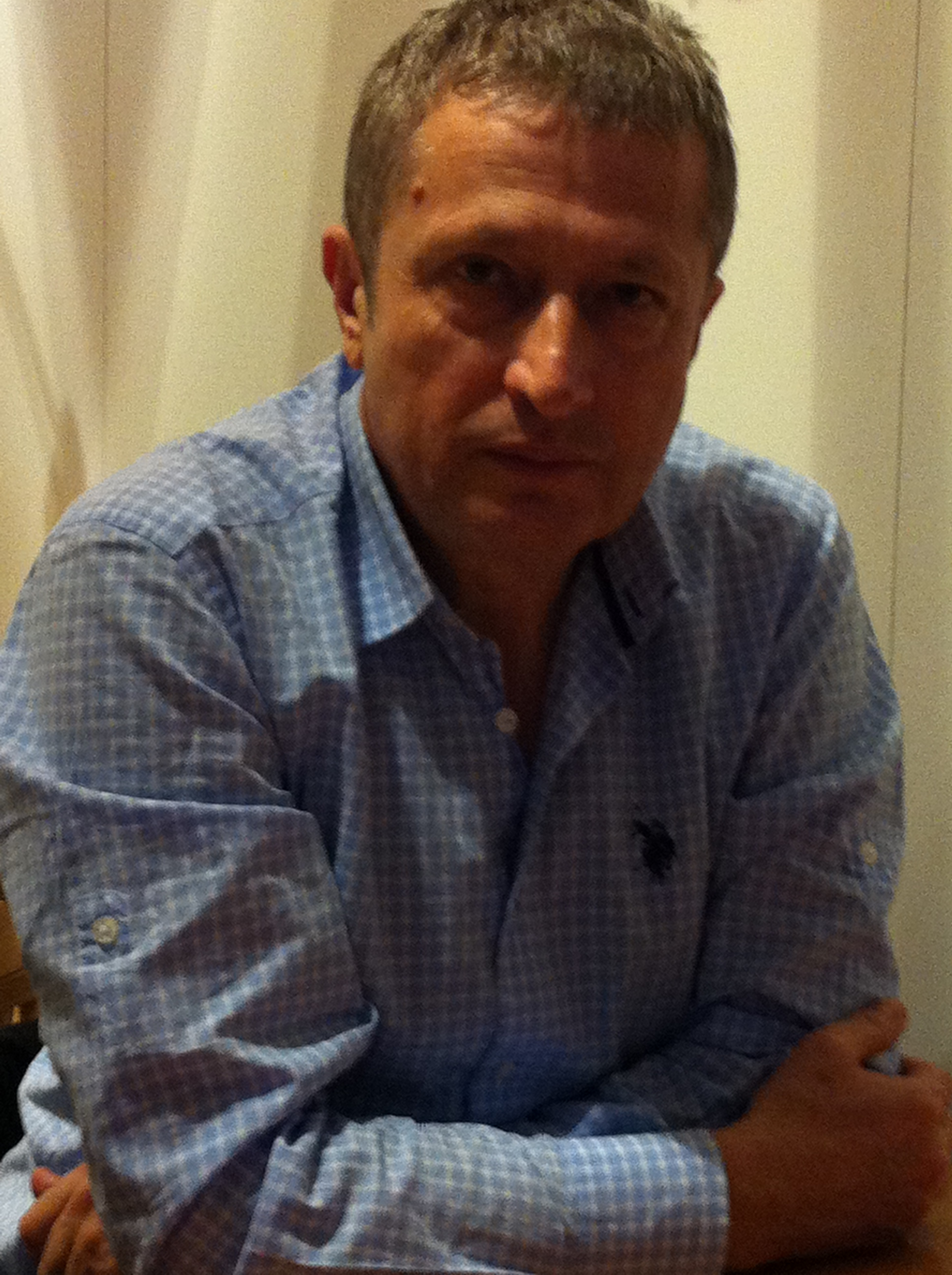 Ioan Vieru, poet